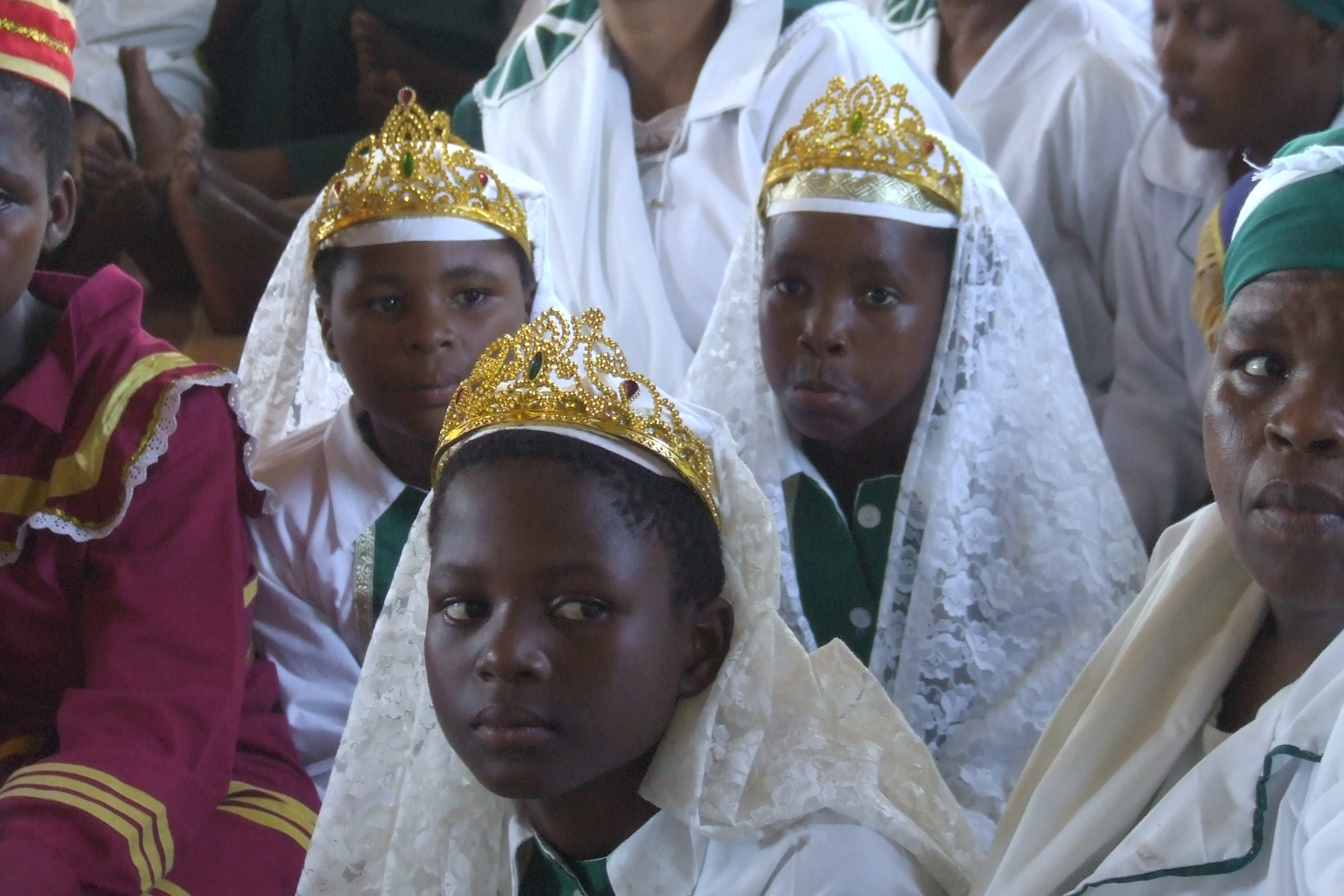 Zulu worshippers at an African Apostolic Church, Easter Sunday 16th April 2006